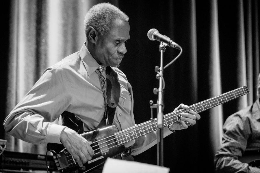 Jerome Harris with Abraham Inc. at the stage at Cosmopolite. The concert took place on 17. November 2017 in Oslo. The concert was part of Cosmopolite's 25 year jubilee week.Lineup:David Krakauer (clarinet)Fred Wesley (trombone)Socalled (piano and accordion)Taron Benson (rap)Gary Winters (trumpet)Brandon Wright (tenor saxophone)Sheryl Bailey (guitar)Allen Watsky (guitar)Jerome Harris (bass guitar)Michael Sarin (drums)